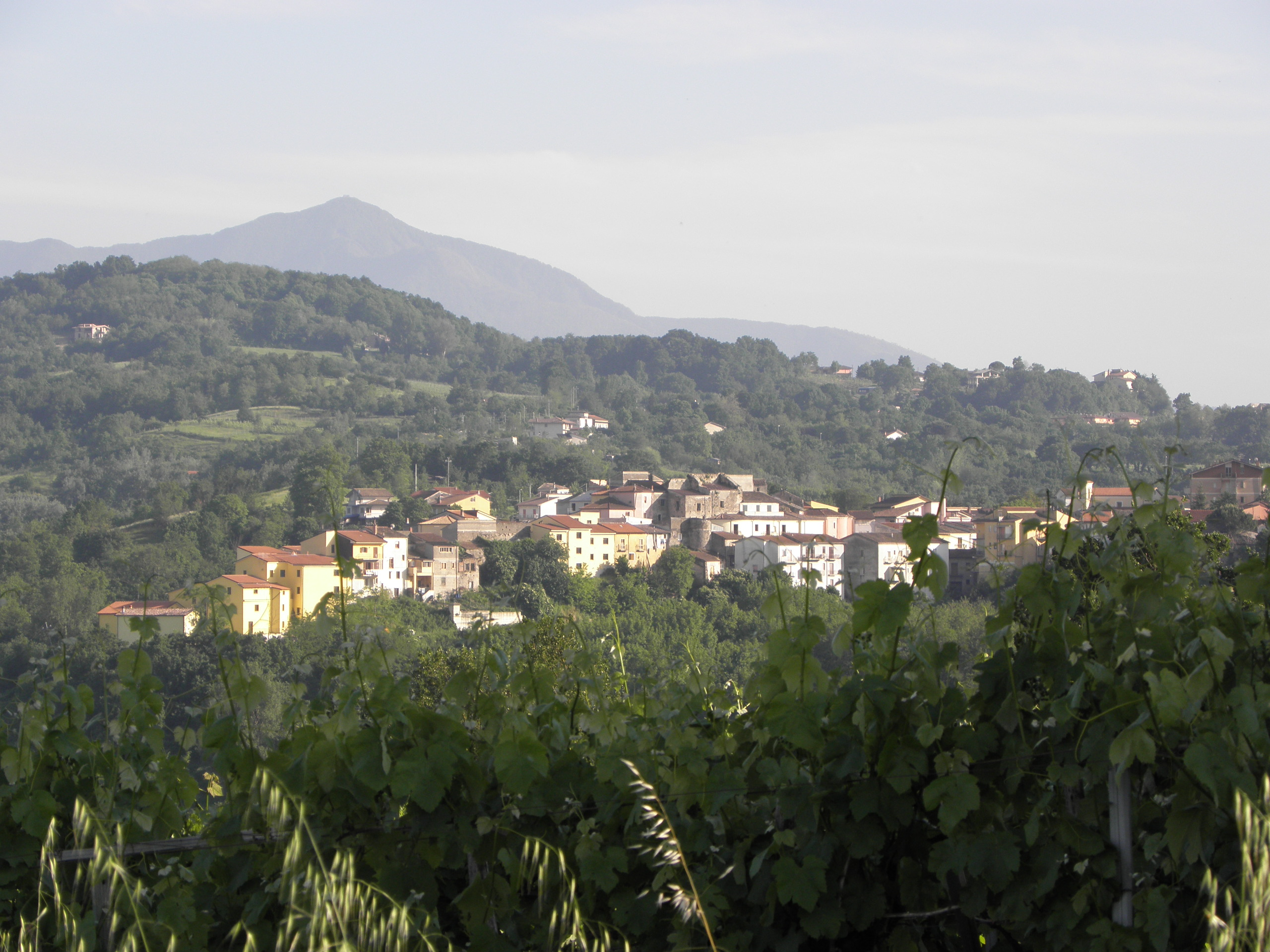 View of the village of Serra di Pratola